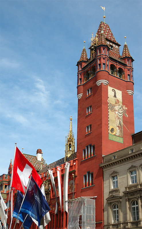 Rathaus, Town Hall in Basel,Switzerland